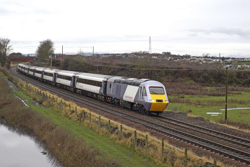 National Express East Coast 43300 leads 43238 on 3F00 1034 Craigentinny - Craigentinny 'filming run' past Lathallan on first day of NXEC